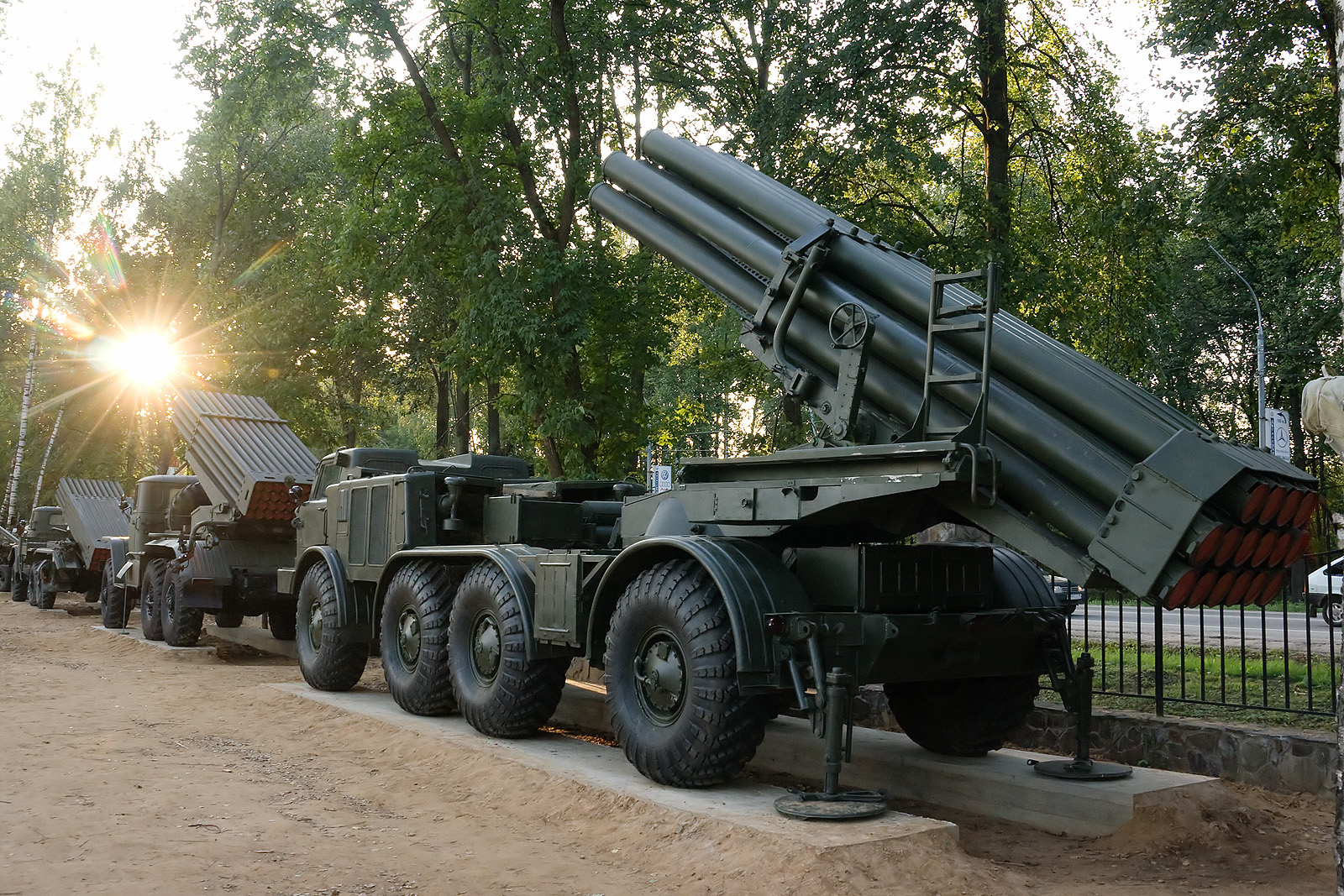 BM-27 Uragan